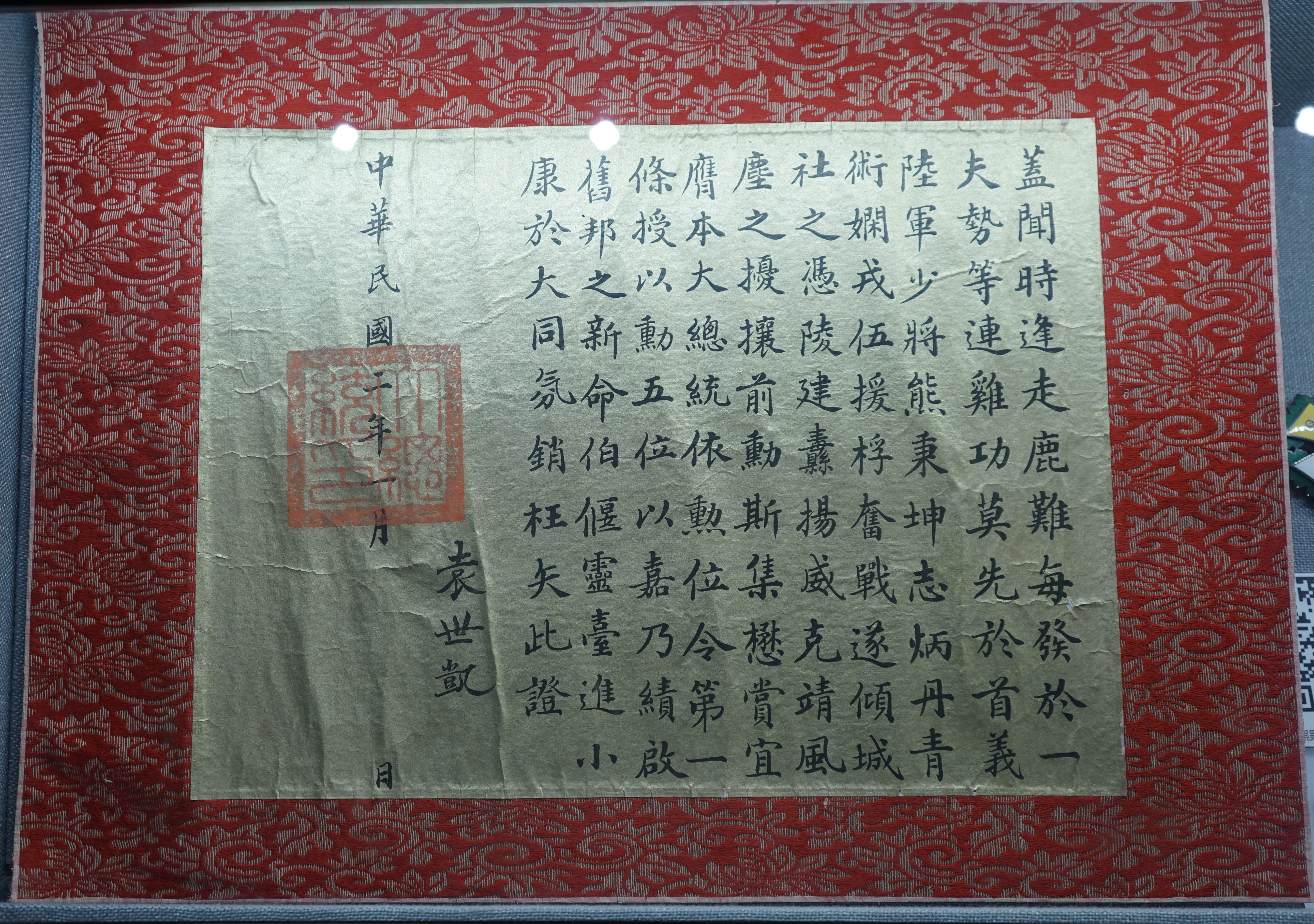 In January of 1913, according to the Rules for Merit Ranks, Xiong Bingkun was granted the Fifth Merit Rank, together with the certificate. 熊辉捐赠。